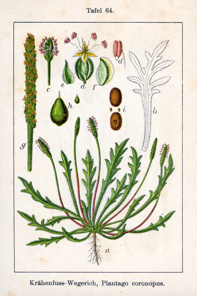 Plantago coronopus L. Original Description Krähenfuss-Wegerich, Plantago coronopus